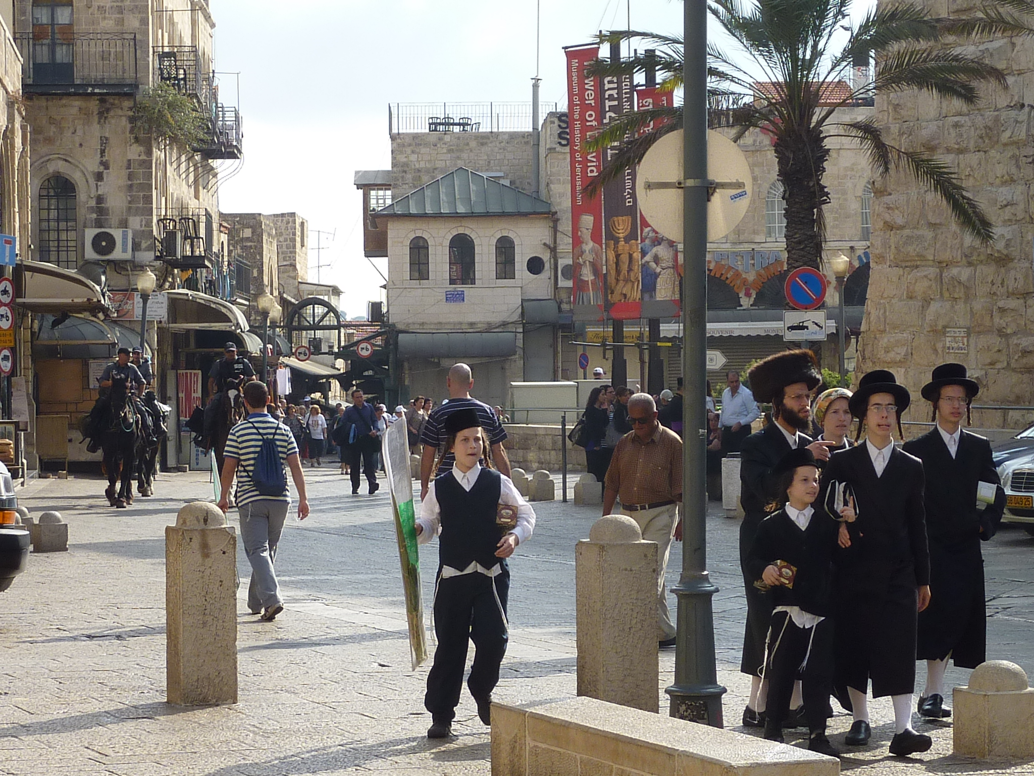 Old Jerusalem, Jaffa Gate, Haredi Jews during Sukkot festival P1040471